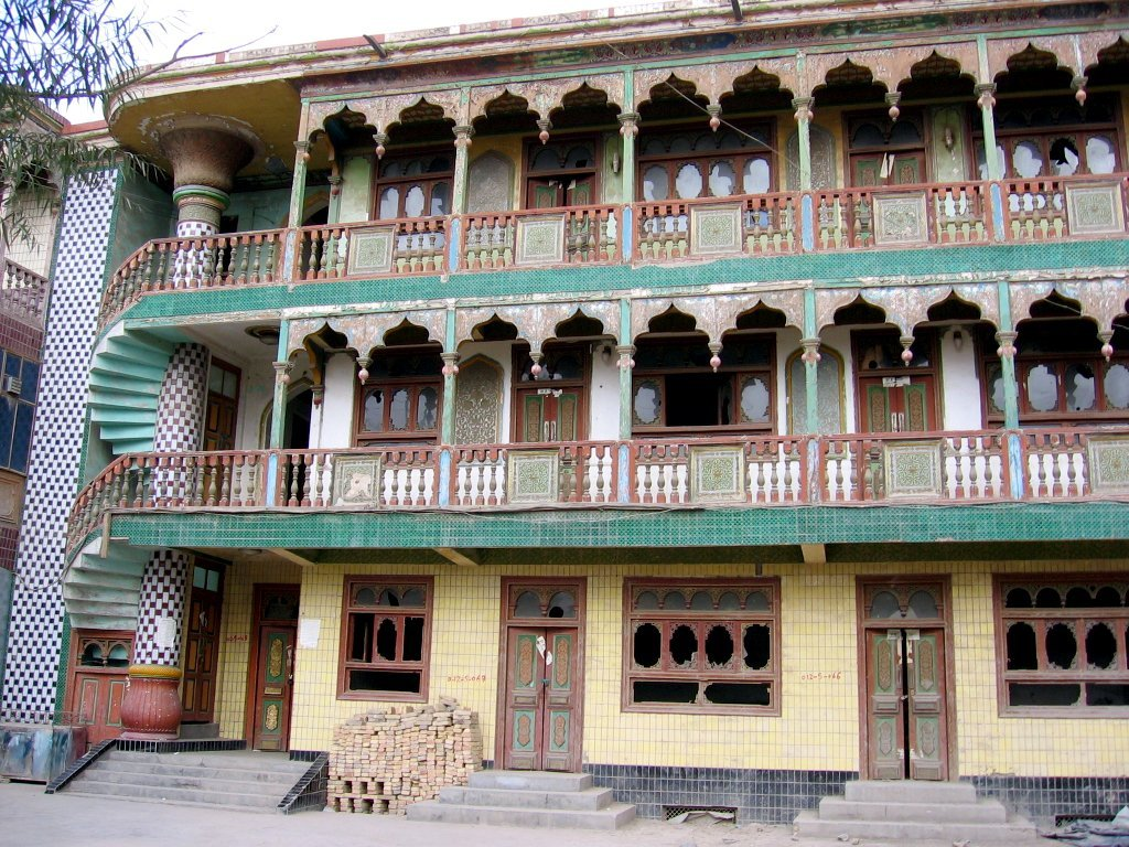 Yarkand (Sache) is an oasis city in the Xinjiang Uygur Autonomous Region of the People's Republic of China. Old city streets.